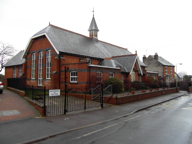 Charlton Kings Infants School The school was first built in 1872. There is a much larger modern extension behind this building. Senior and Junior schools moved elsewhere in the village around the late 1950s.